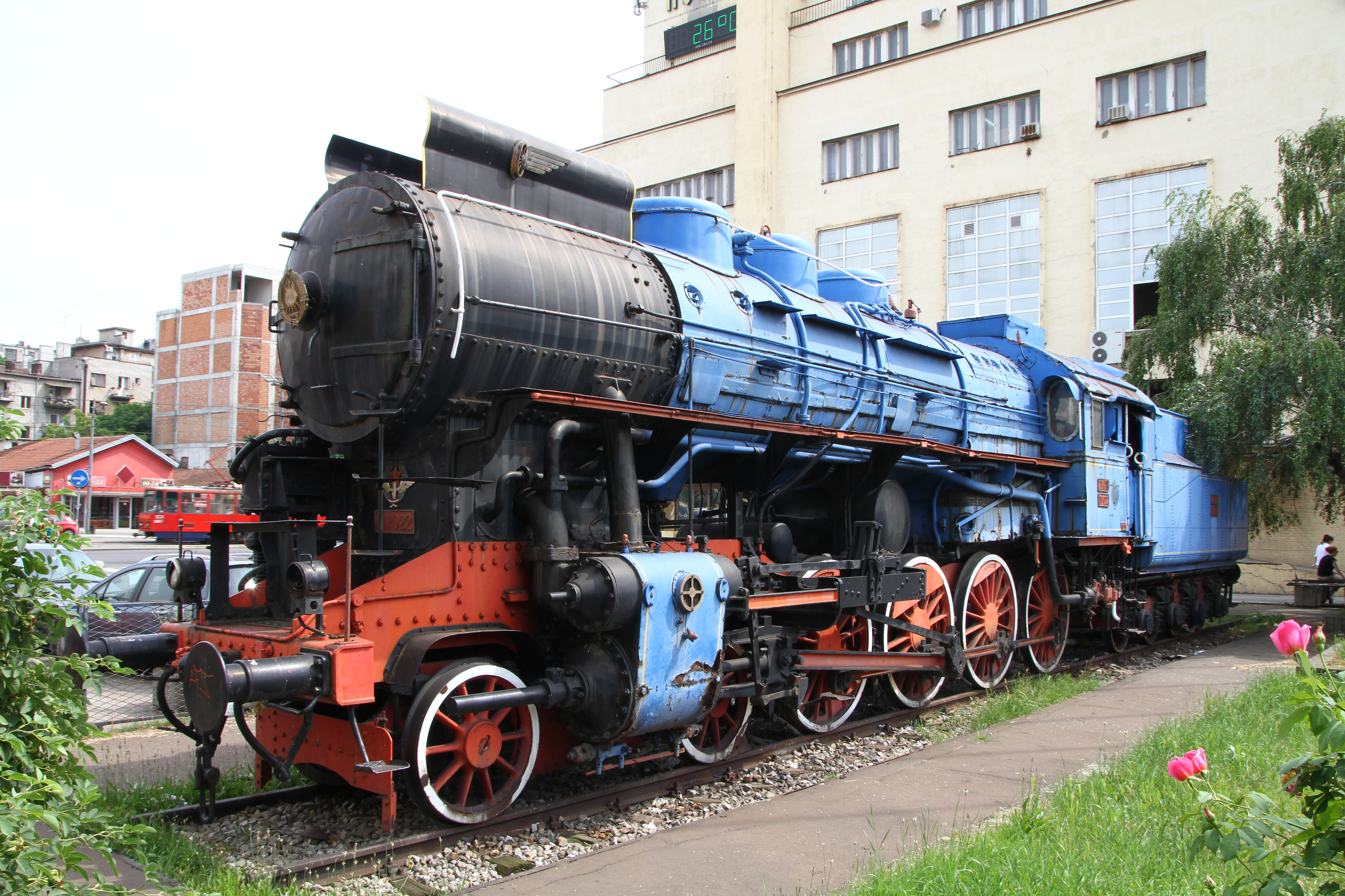 JŽ 11-022 on plith at Belgrade main station. This locomotive was one of three steam engines for Tito's "Blue Train".